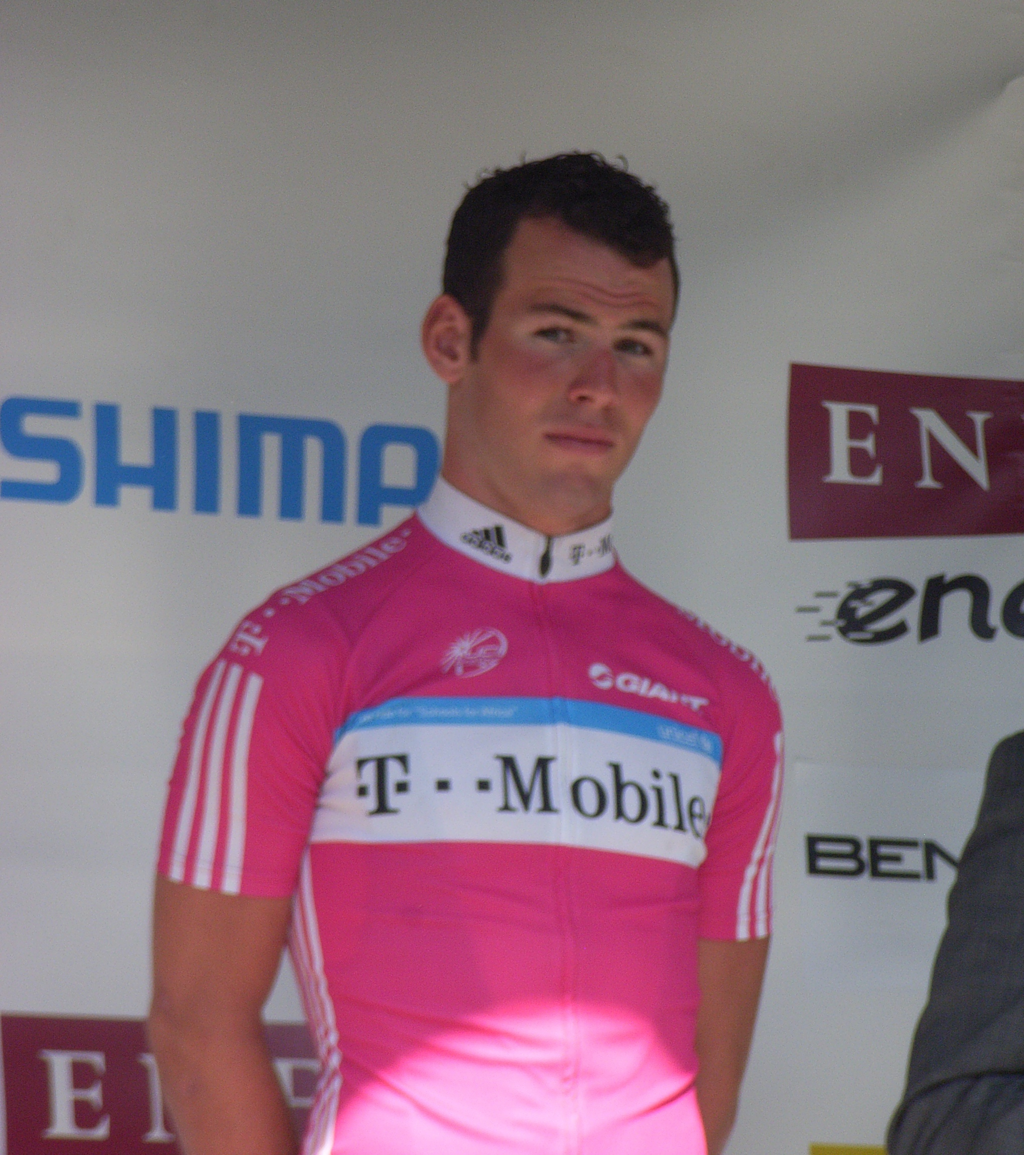 Mark Cavendish in the Eneco Tour 2007